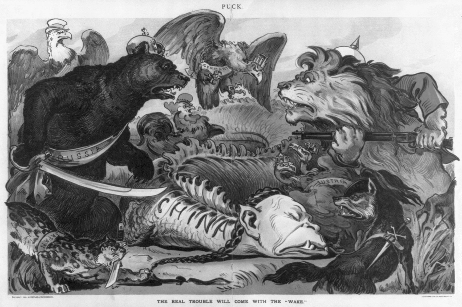 TITLE: The real trouble will come with the "Wake" Color lithograph by Joseph Keppler. Animal personifications of Russia, England, Germany, Austria, Italy, France, Japan fighting over body of China (dragon); U.S. (eagle) looks on. Color lithograph.